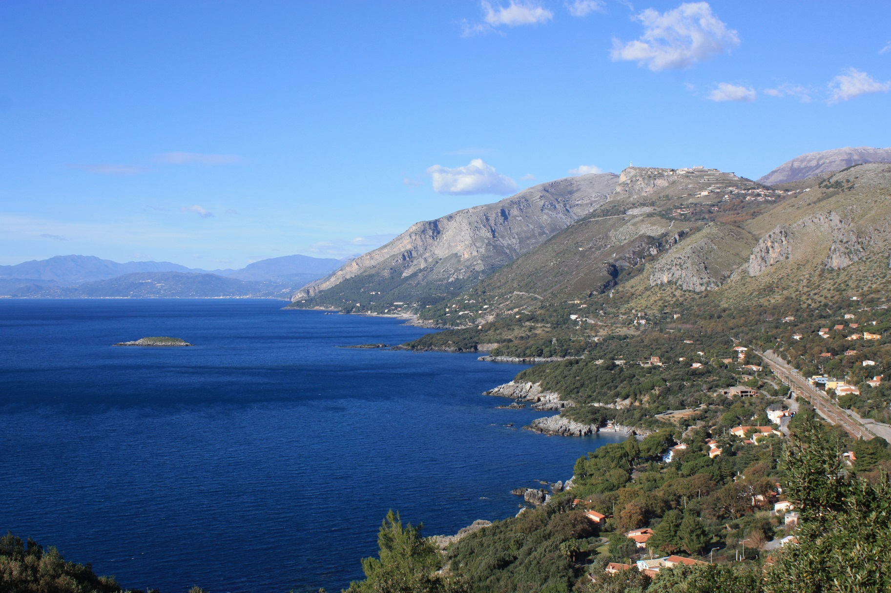 Maratea's coastline.